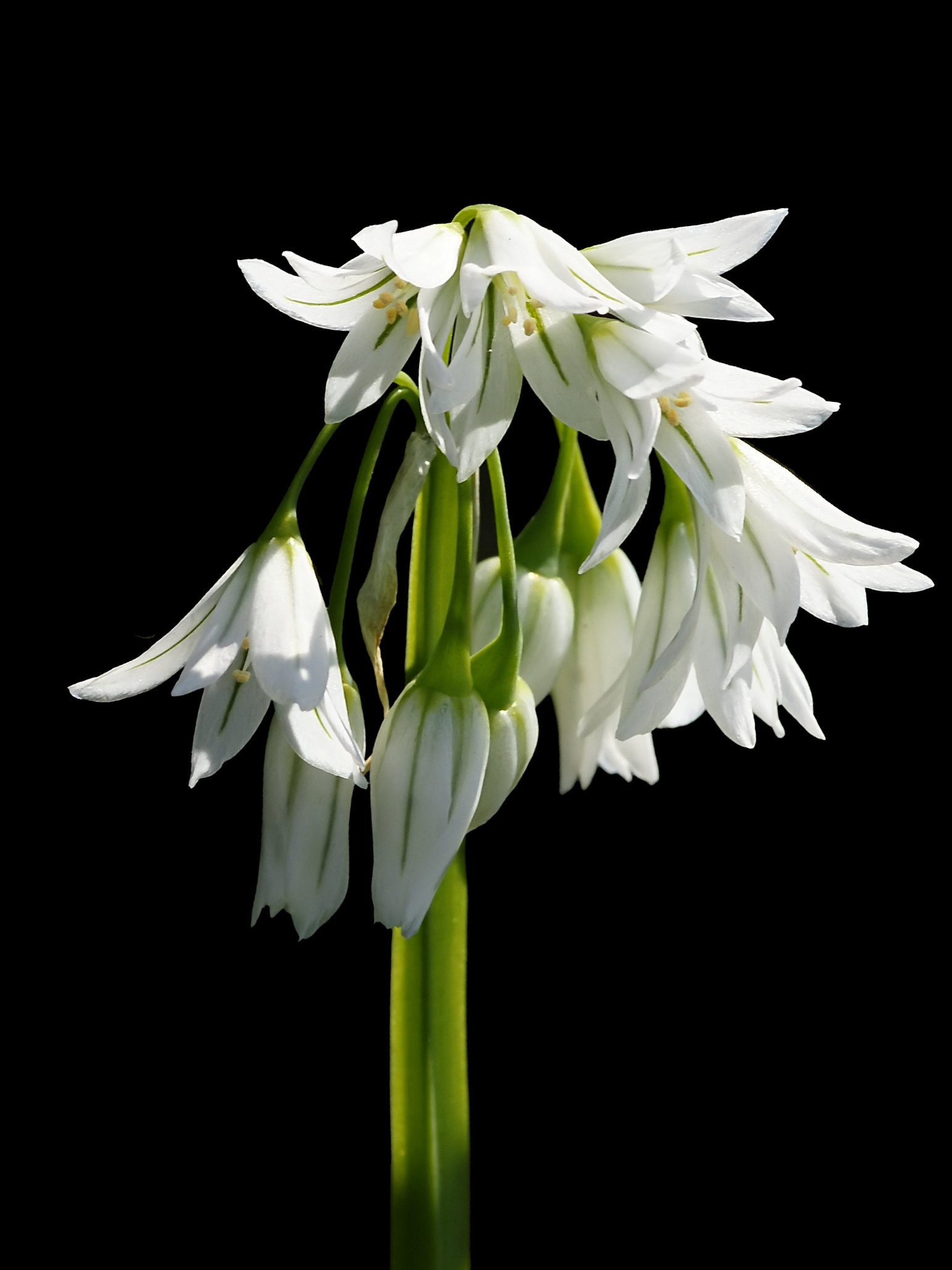 Three-cornered Leek near Es Llombards, Mallorca, Spain.